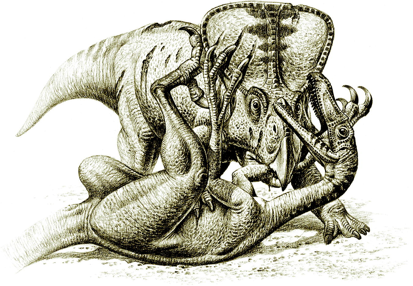 An artist's rendering of a Velociraptor and Protoceratops locked in a mortal combat, based on the "Fighting Dinosaurs" specimen. (See en.wiki for more information.)